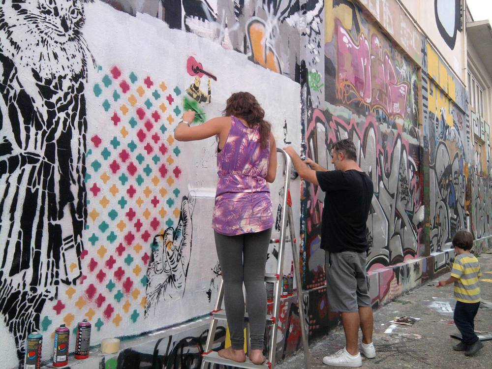 Applying paint on stencils. Arteleku art center, Donostia